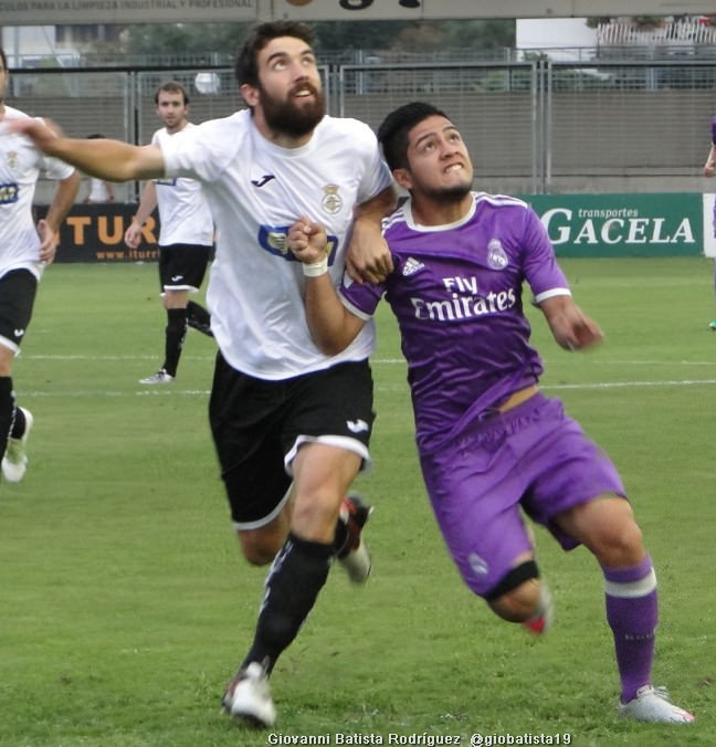 Serio Diaz playing for Real Madrid B in 2016